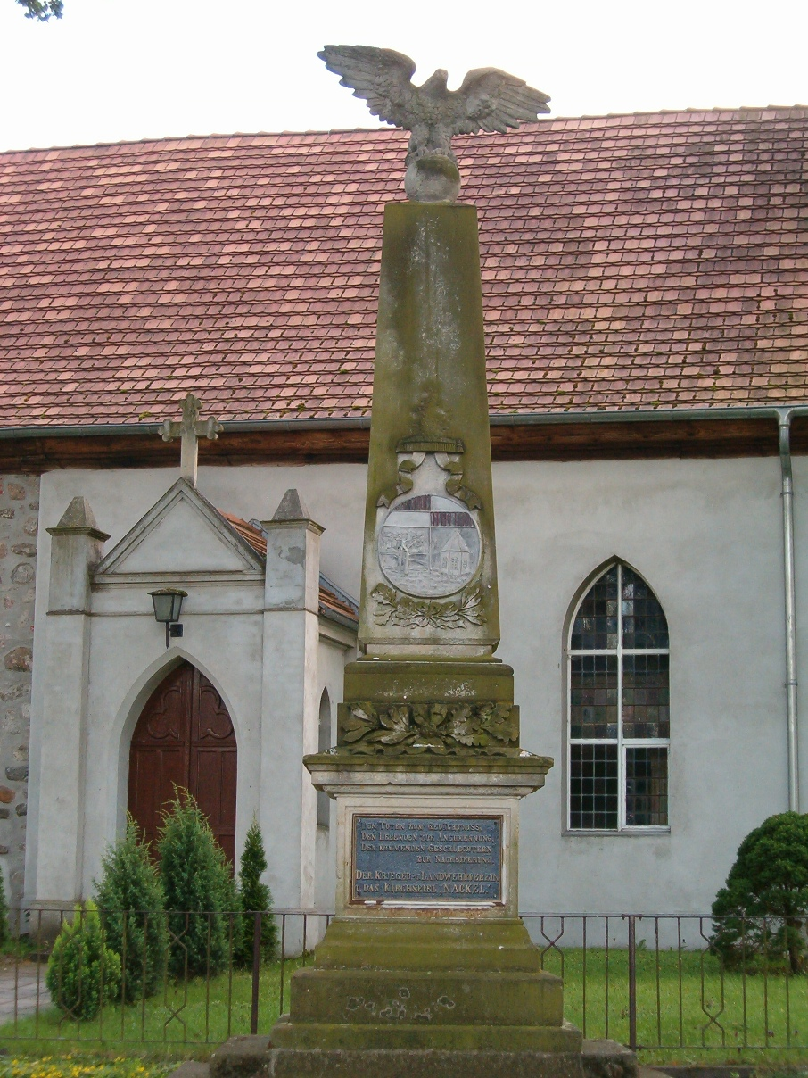 memorial for warriors from Nackel killed in action in the Second Schleswig War, the Austro-Prussian War, and the Franco-Prussian War, in front of the Village Church in Nackel in Brandenburg, Germany with emblem of village